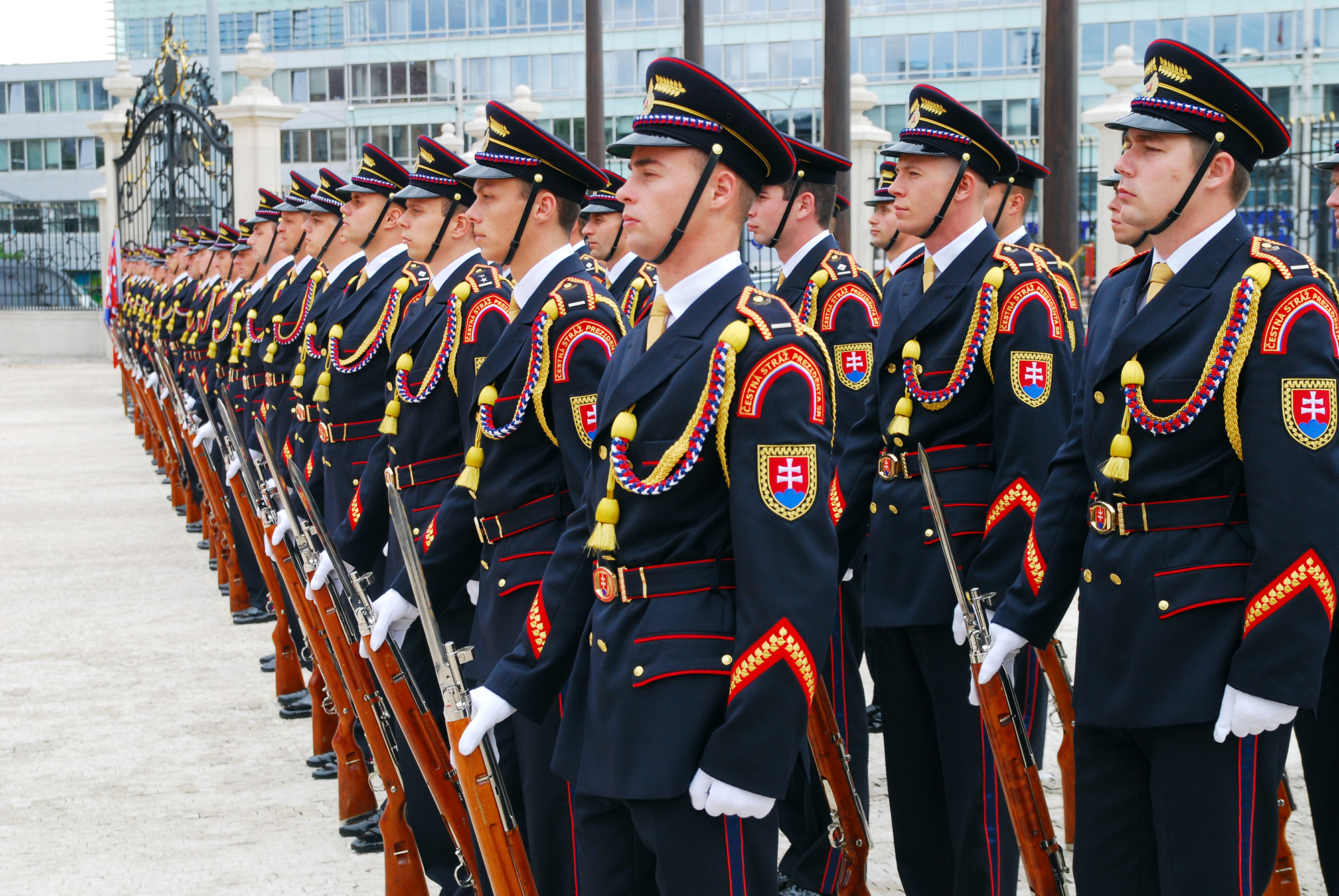 The Honour guards of President of Slovakia during the signature of Cooperation Agreement